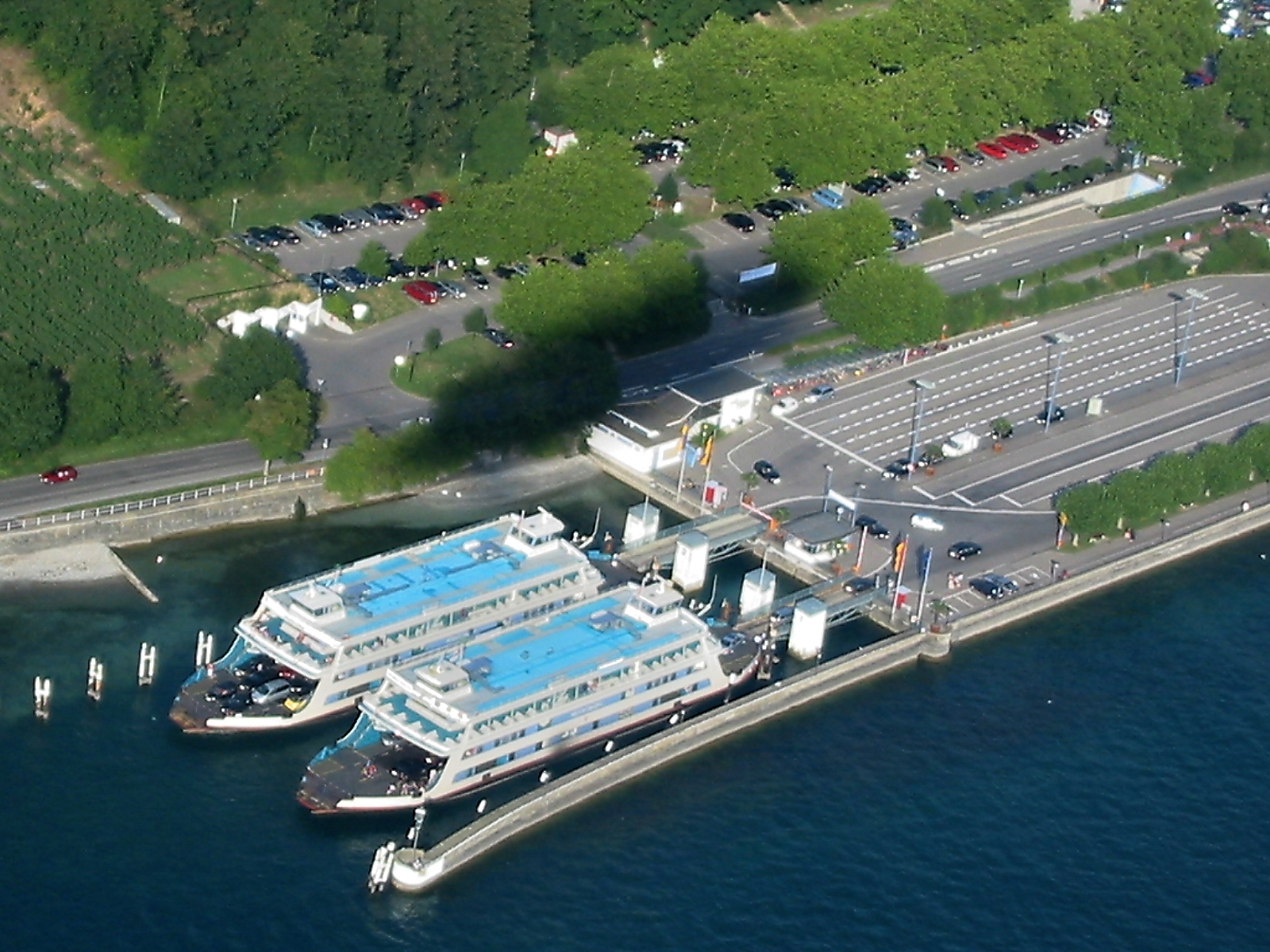 Germany, Baden-Württemberg, impressions of a flight with airship D-LZZR